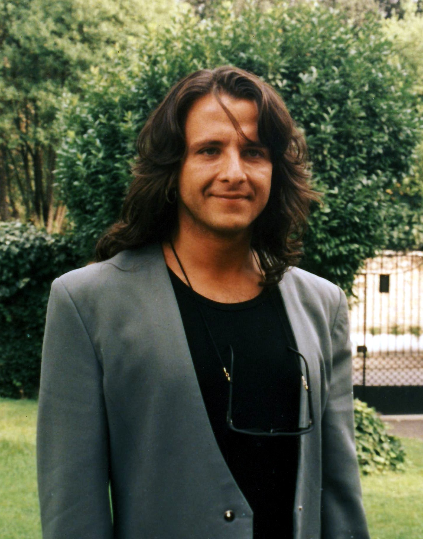 Photo of Eduardo Palomo, mexican actor